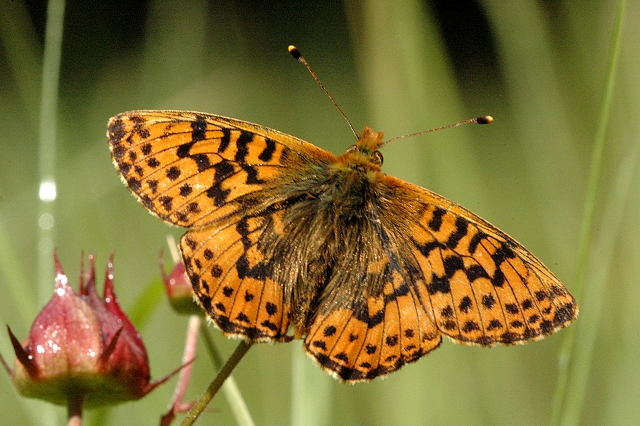 Picture taken in Commanster, Belgian High Ardennes . Species: Boloria aquilonaris